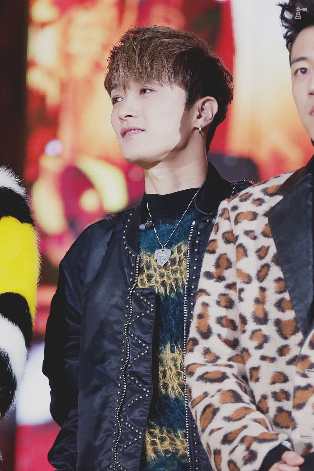 161119 kimjaeduck MMA